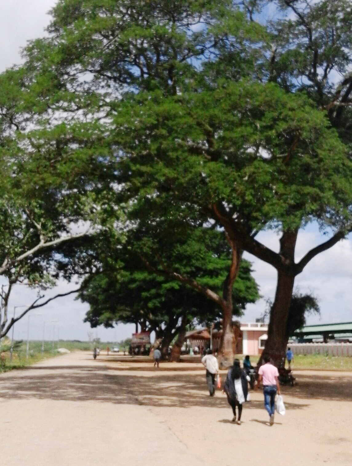 Chamarajanagar city, Chamarajanagar district, Karnataka state, India.